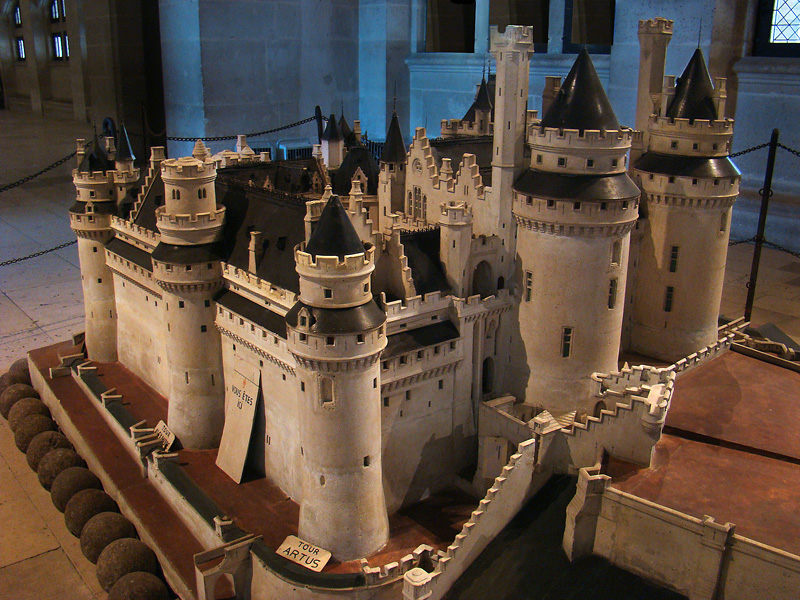 Château de Pierrefonds, Oise, Picardie, France. Stone scale model, made for the Universal Exposition of 1878 by Wyganowski, work inspector.